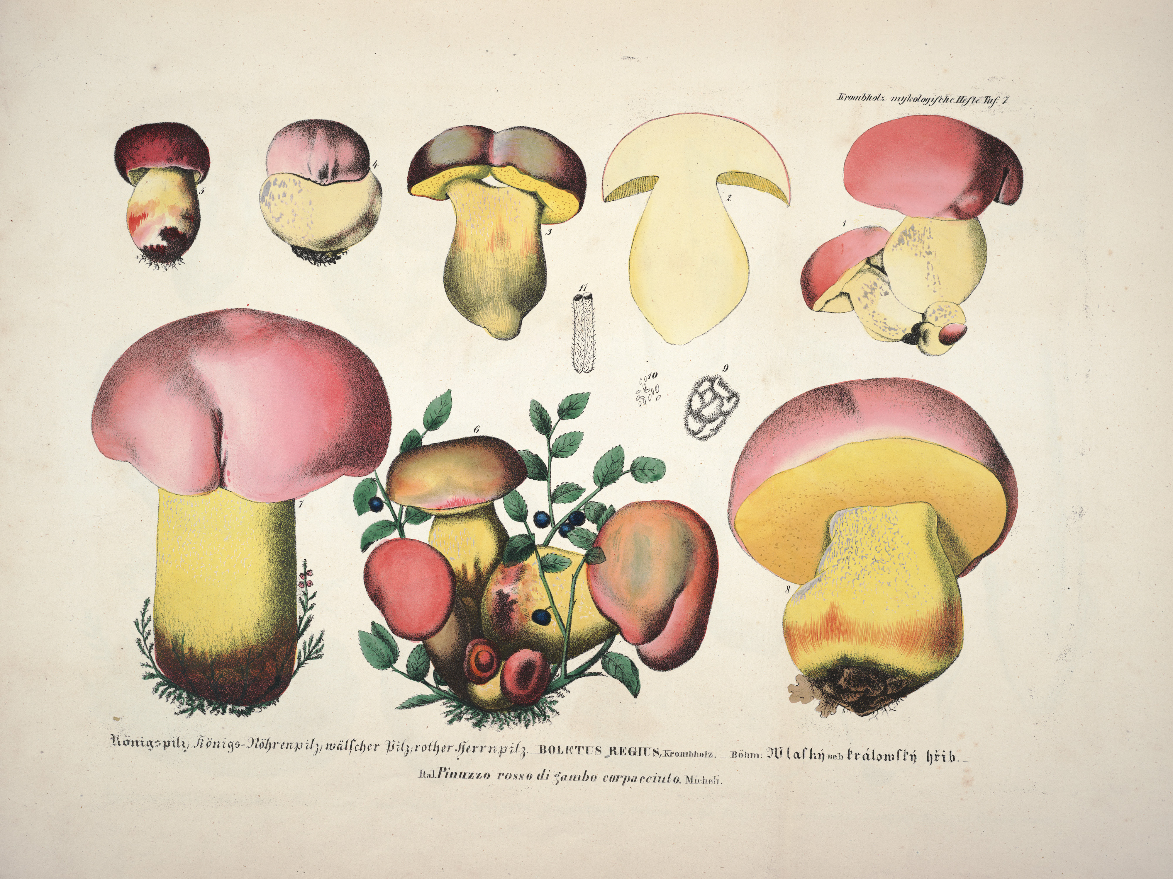 Boletus regius sensu Krombholz, Krombholz mykologische Hefte Taf. 37; Naturgetreue Abbildungen und Beschreibungen der essbaren, schädlichen und verdächtigen Schwämme (Praga, 1831-1846)